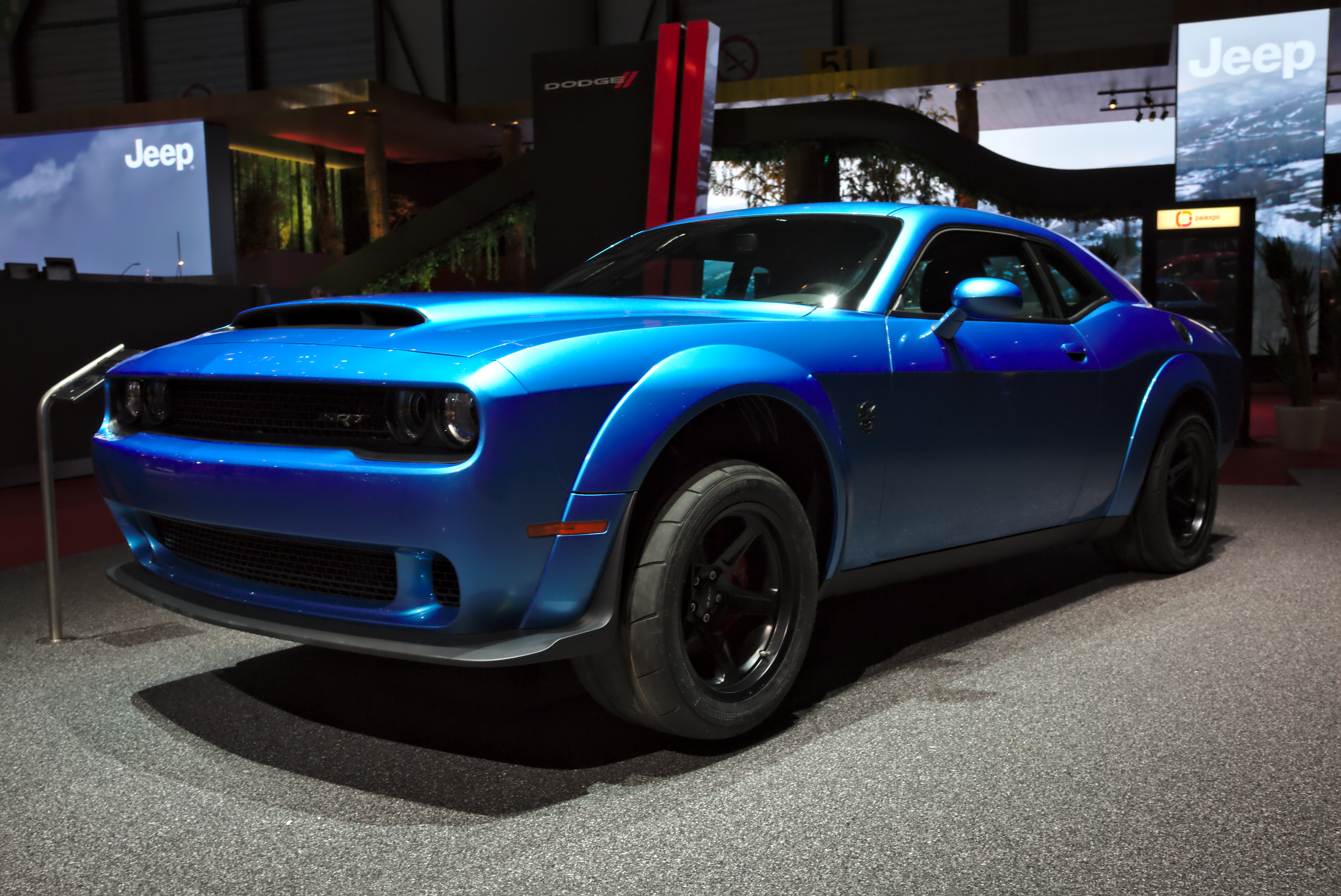 Dodge Challenger Demon at Geneva Motorshow 2018